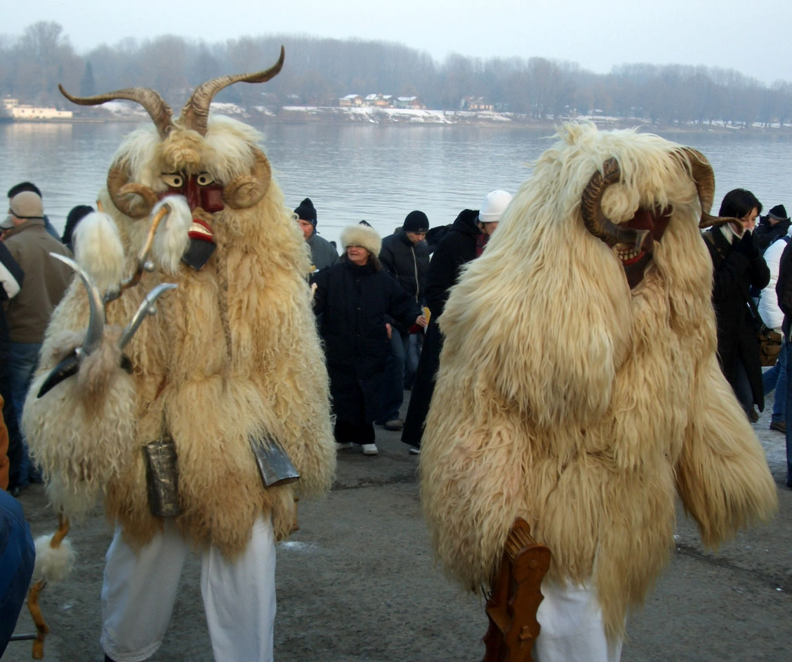 Carnival in Mohács, Hungary